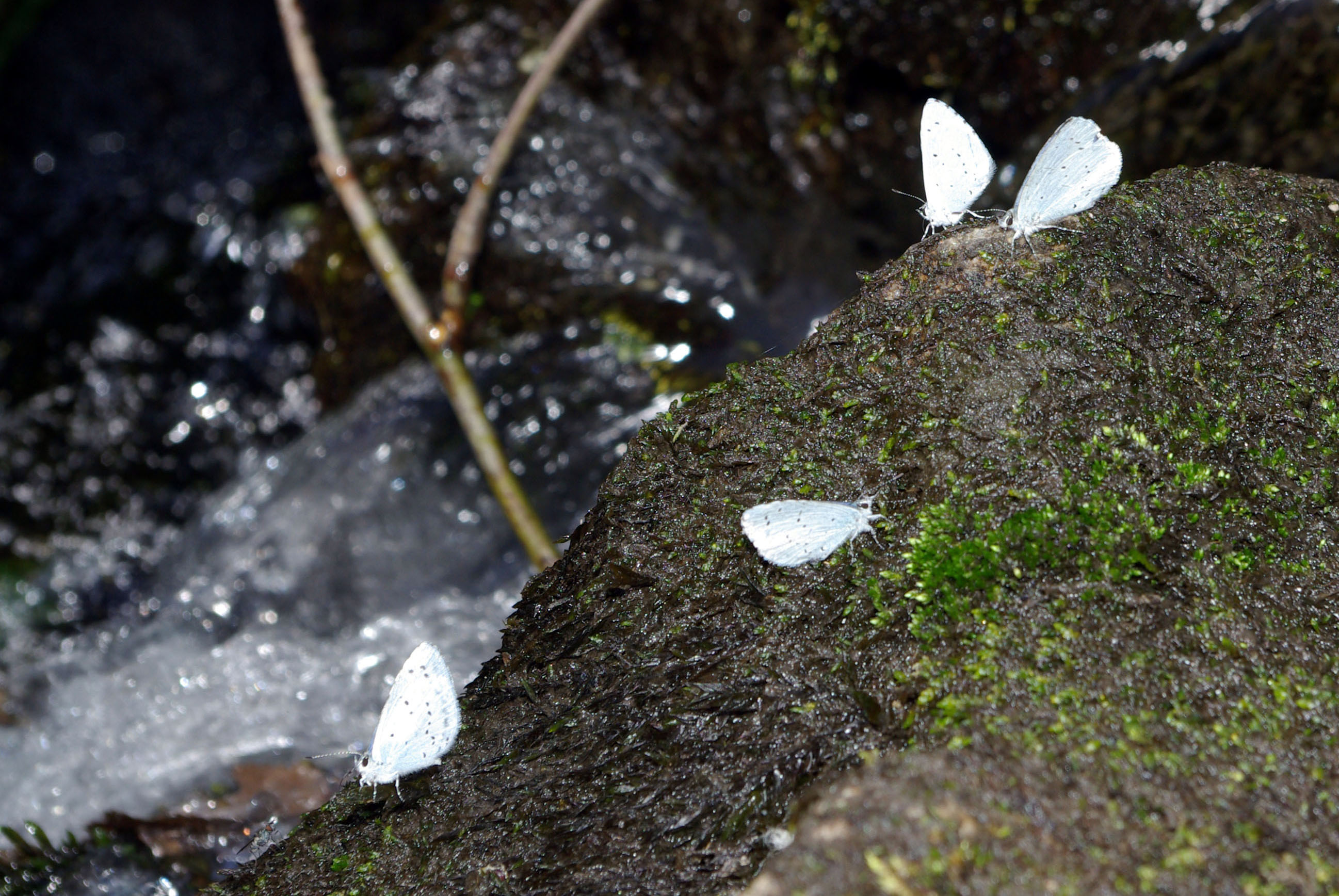 Holly blue (Celastrina argiolus) on Willow Moss (Fontinalis antipyretica). Photo taken in Pentes River, near Pentes (A Gudiña, Ourense, Spain)